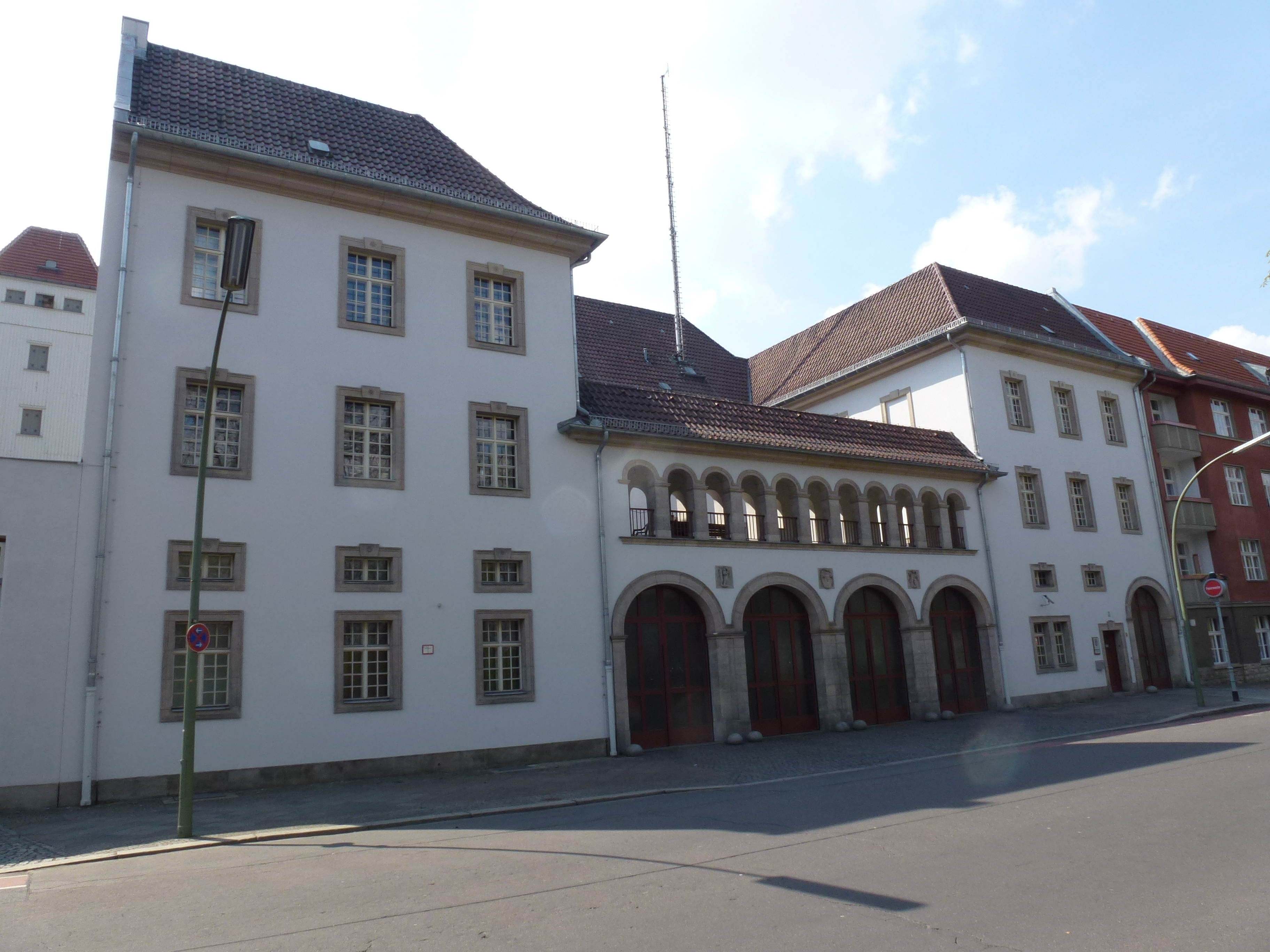 Berlin-Wedding Edinburger Straße Feuerwehrwache Schillerpark